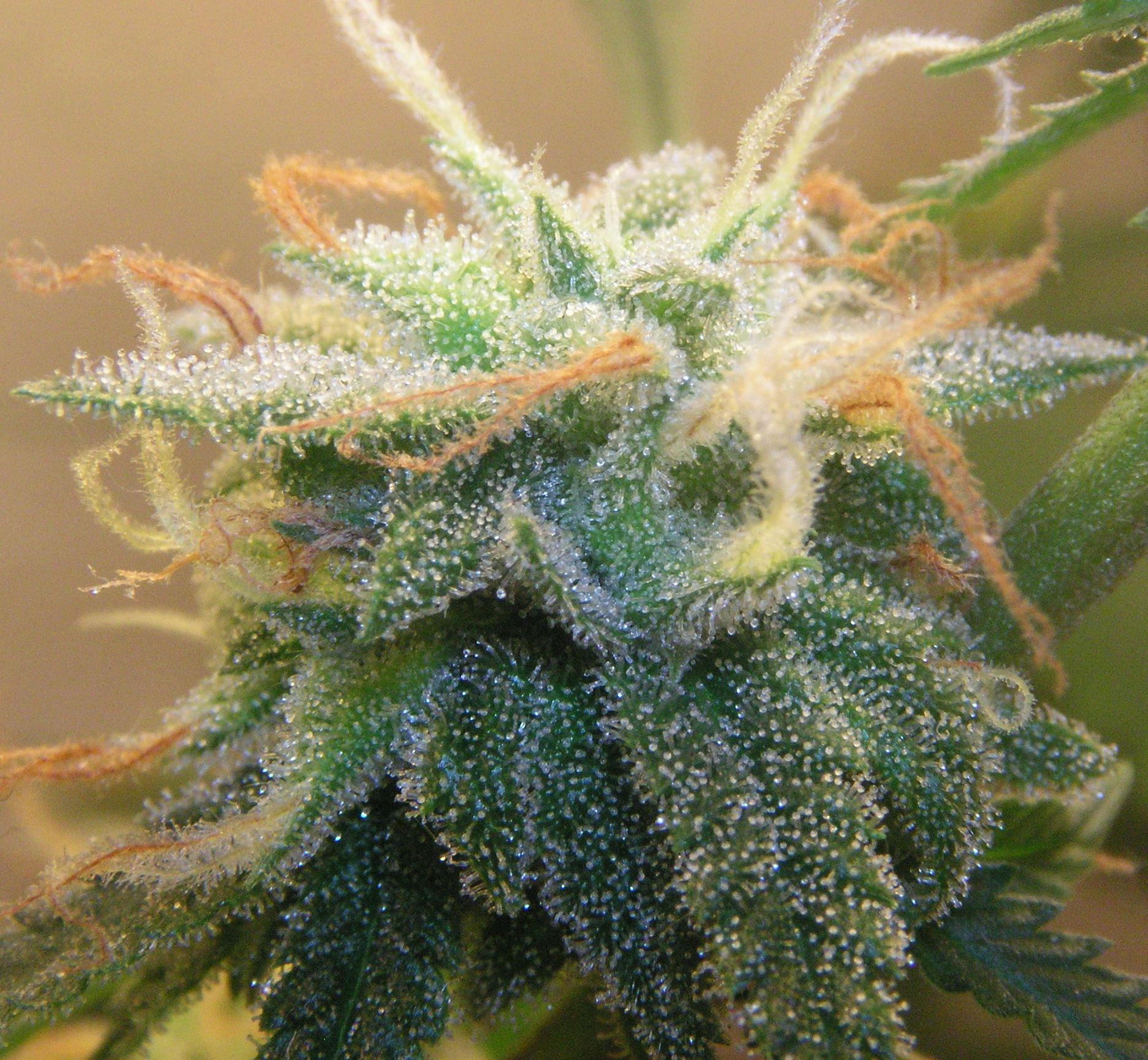 A bud of super silver haze.